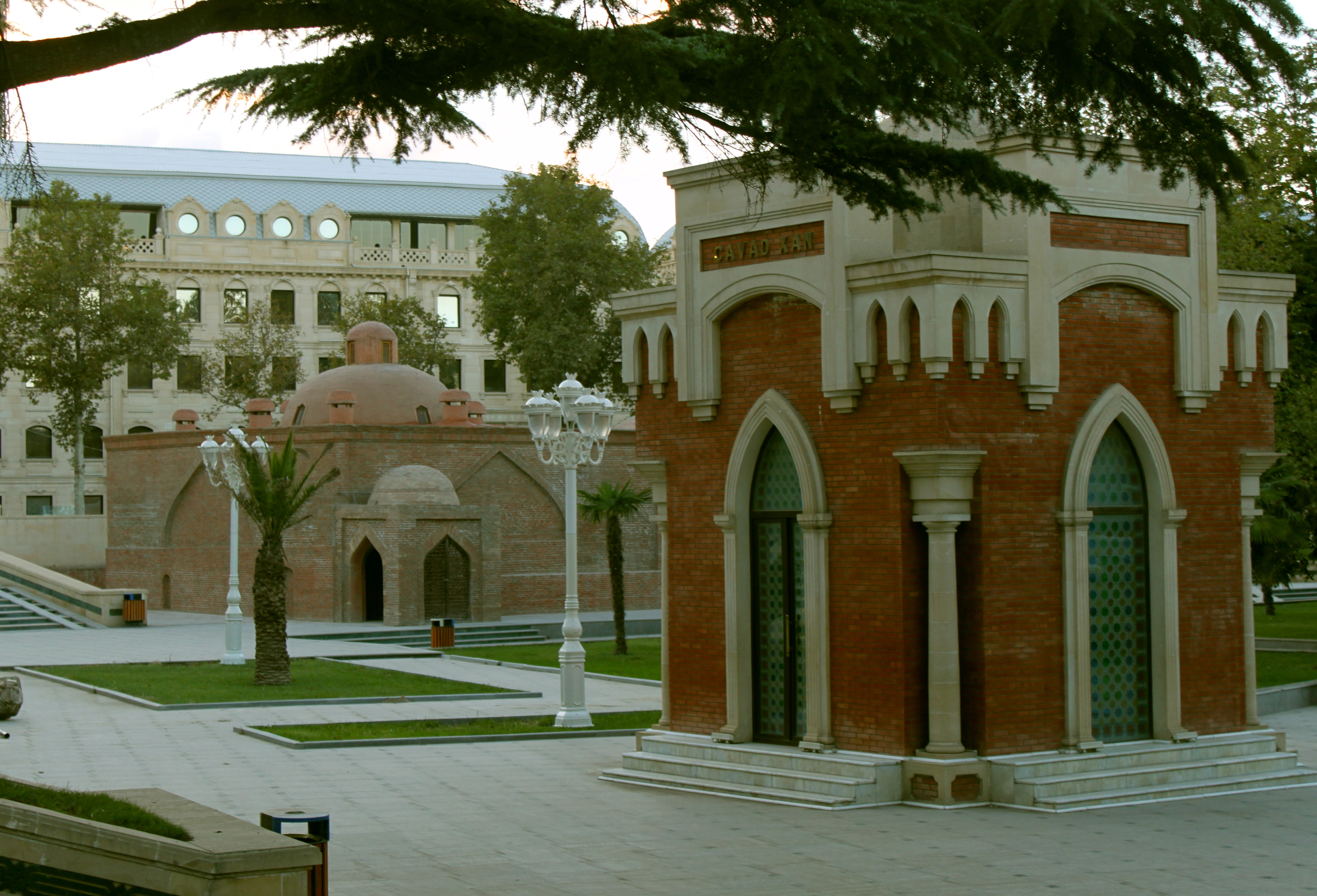 Chokak Bath and Javad khans tomb in historic center medieval city center